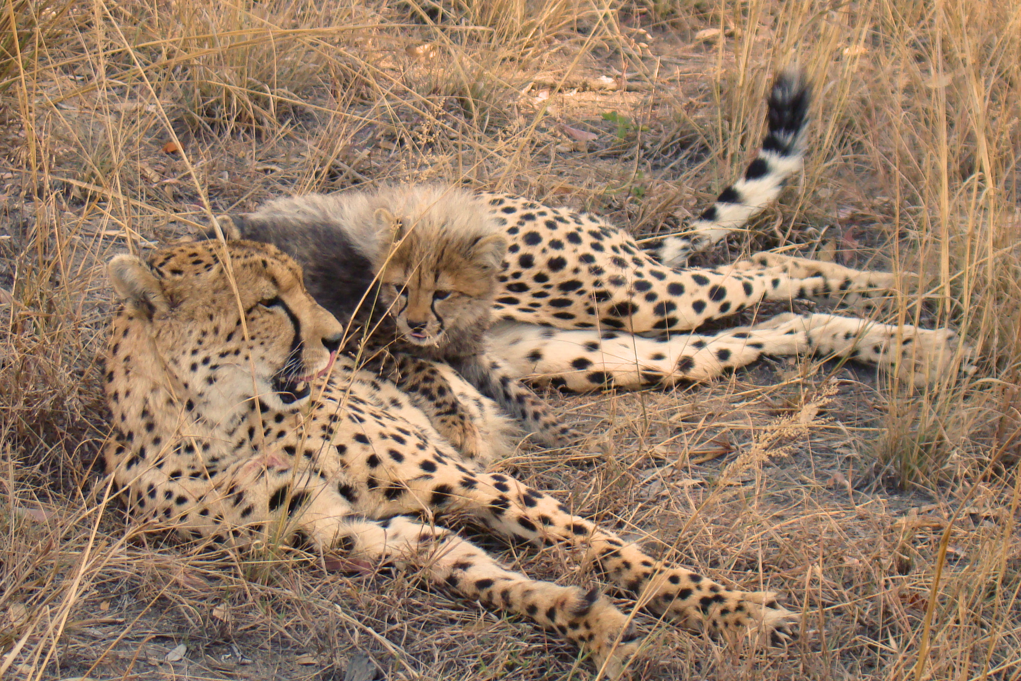 A cheetah cub lying on his mother, photographed in Sabi Sand Private Game Reserve, South Africa.